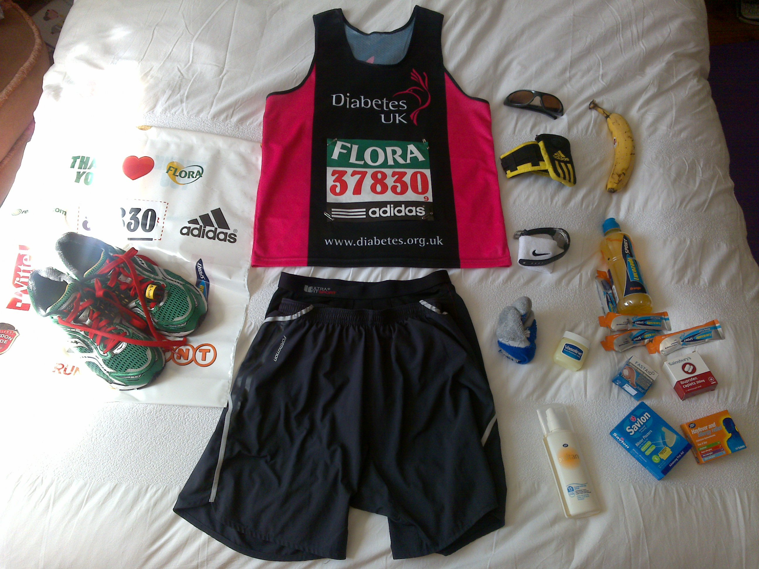 ...hmm, now surely I must have missed something?